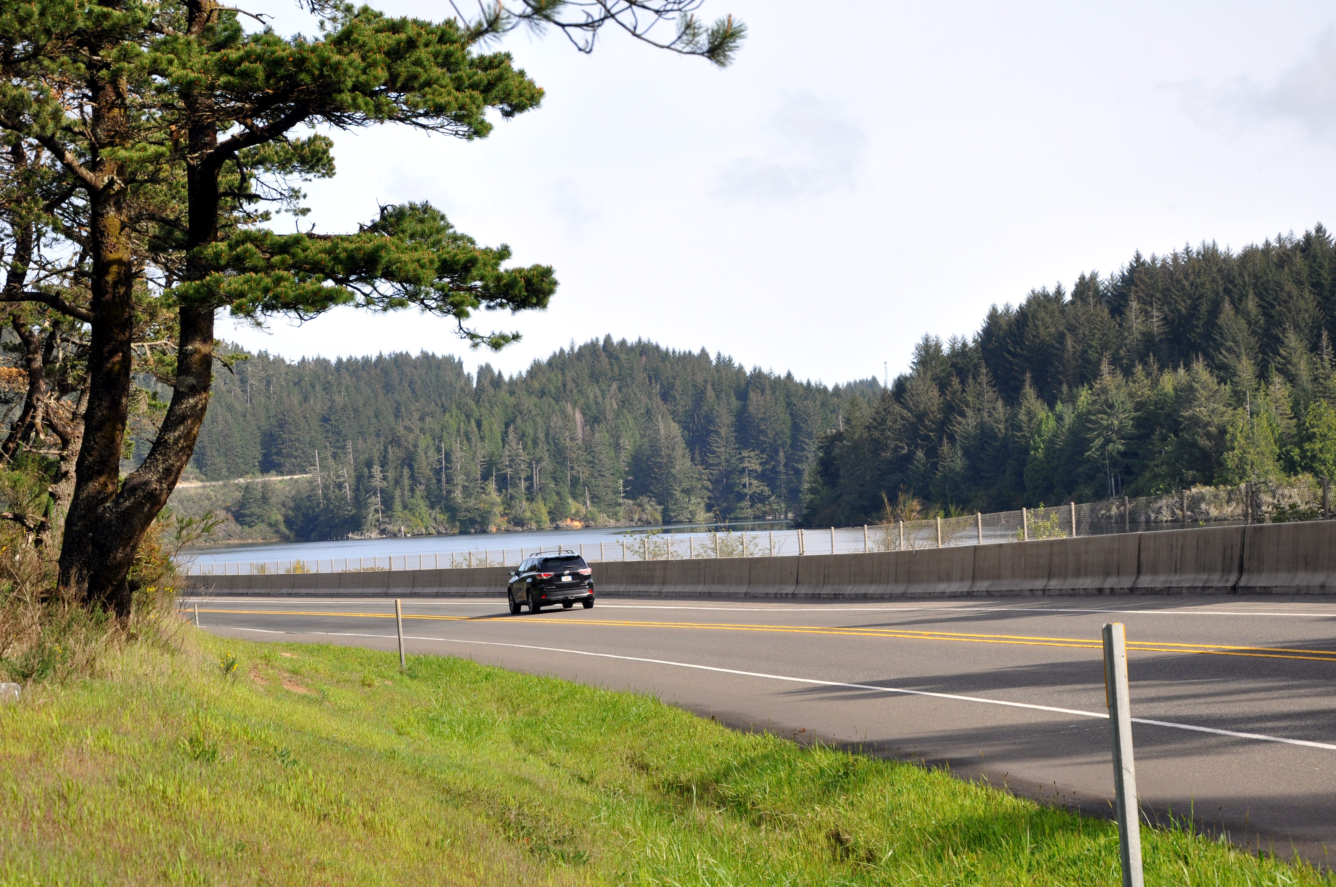 Clear Lake in Douglas County in the U.S. state of Oregon. View is from the west side of U.S. Route 101. The lake, which supplies drinking water to the city of Reedsport, has no direct public access in order to protect the purity of the water.